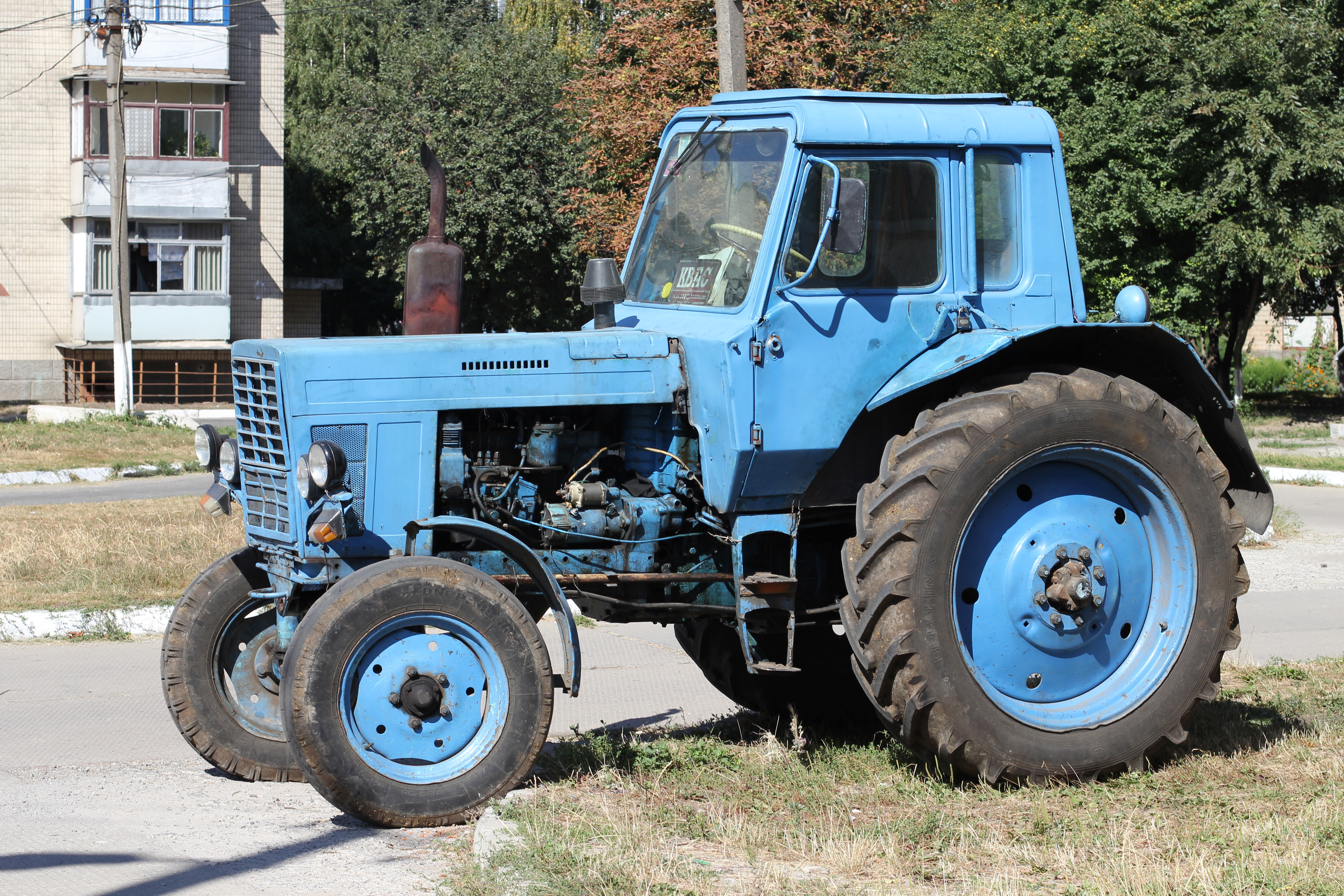 MTZ-80 tractor. Ukraine, Vinnitsa.